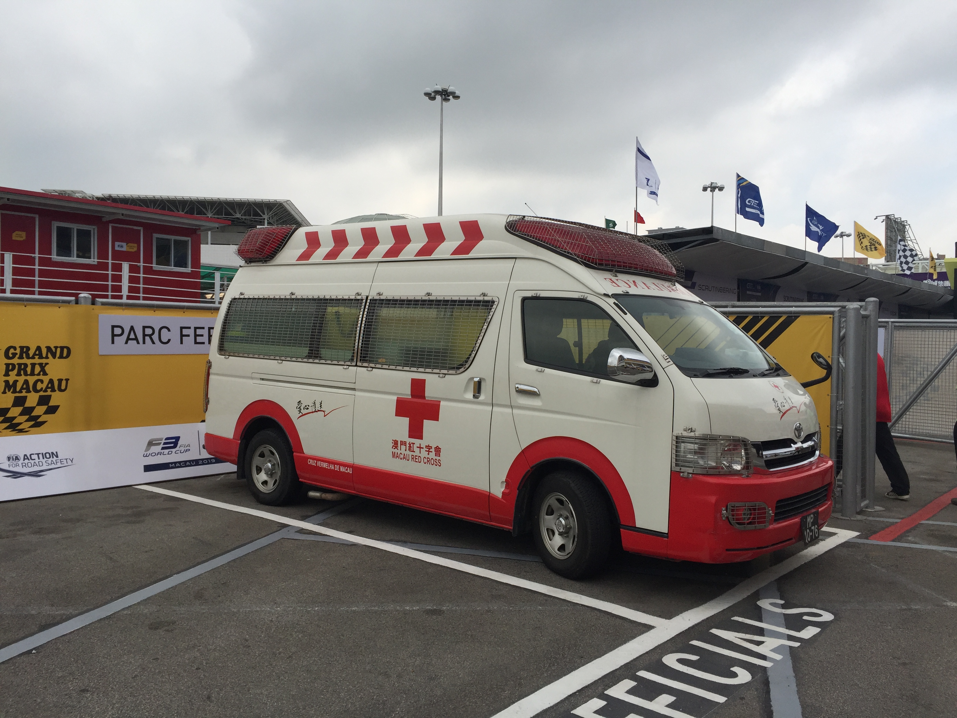 Ambulância